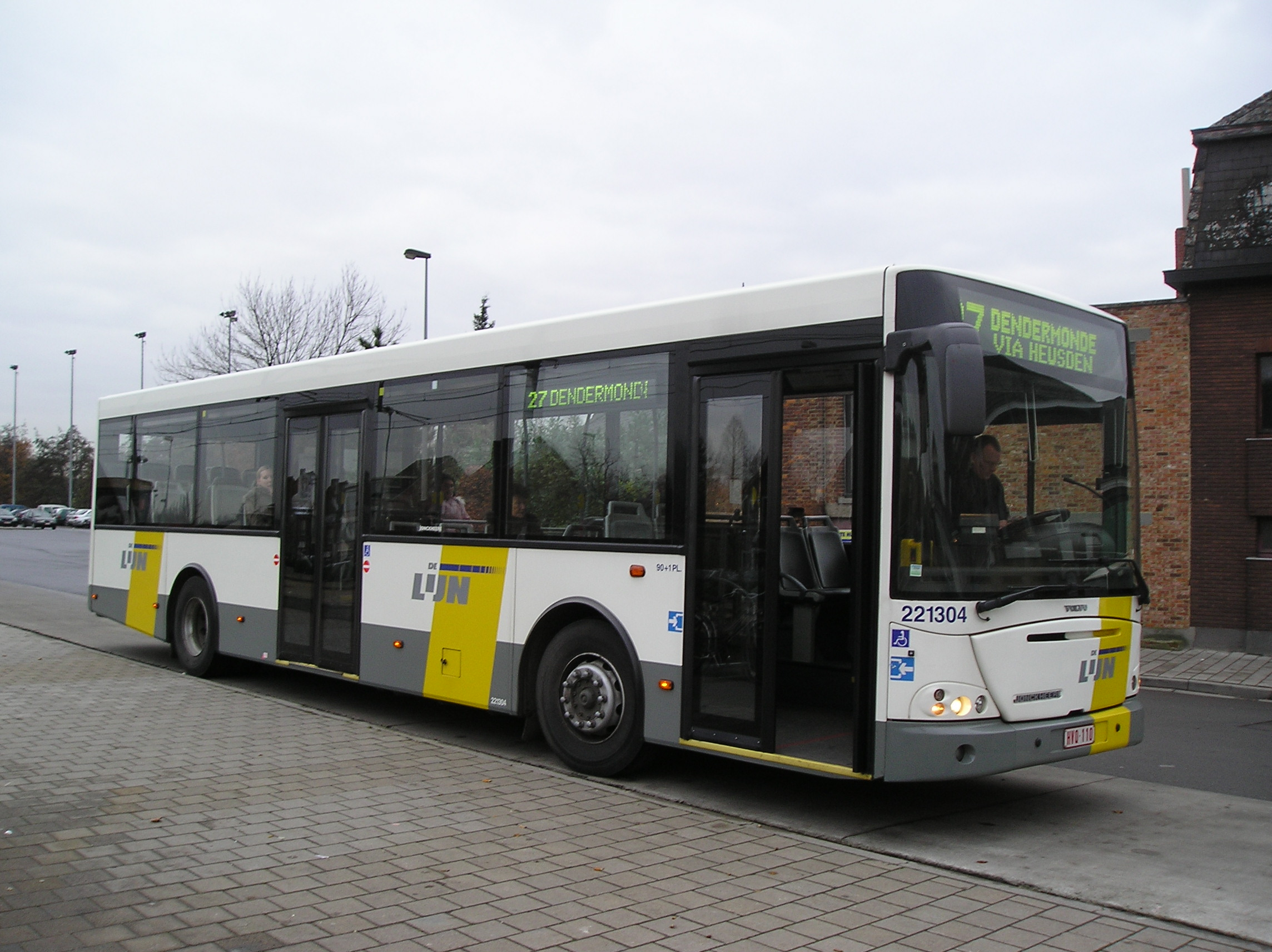 Volvo bus of the Flemish public transport authority De Lijn in Wetteren, on the train station square.